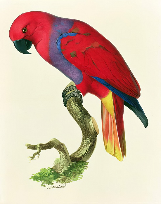 Red Parrot